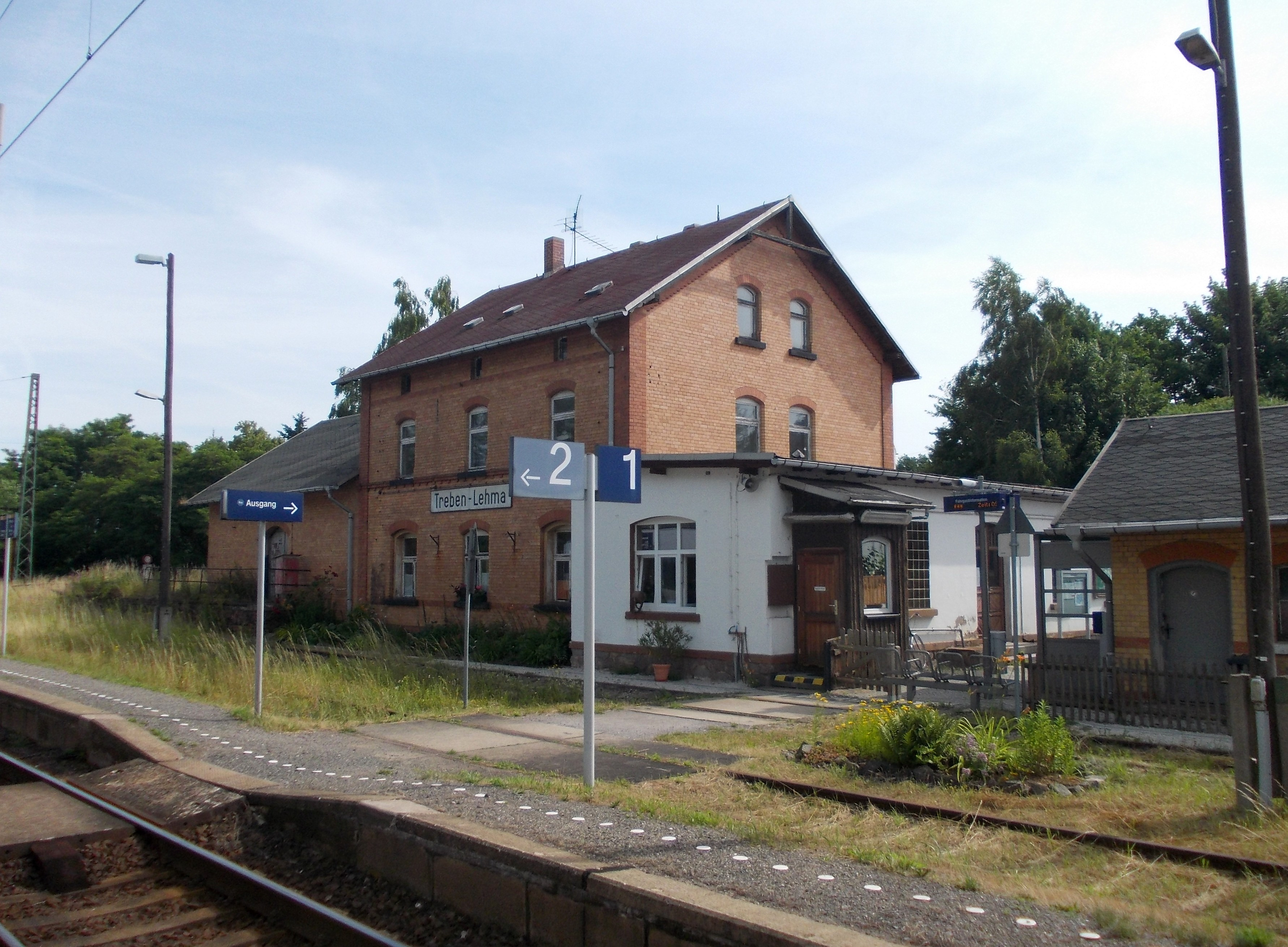 Treben-Lehma train station in Trebanz (Treben, Altenburger Land district, Thuringia)